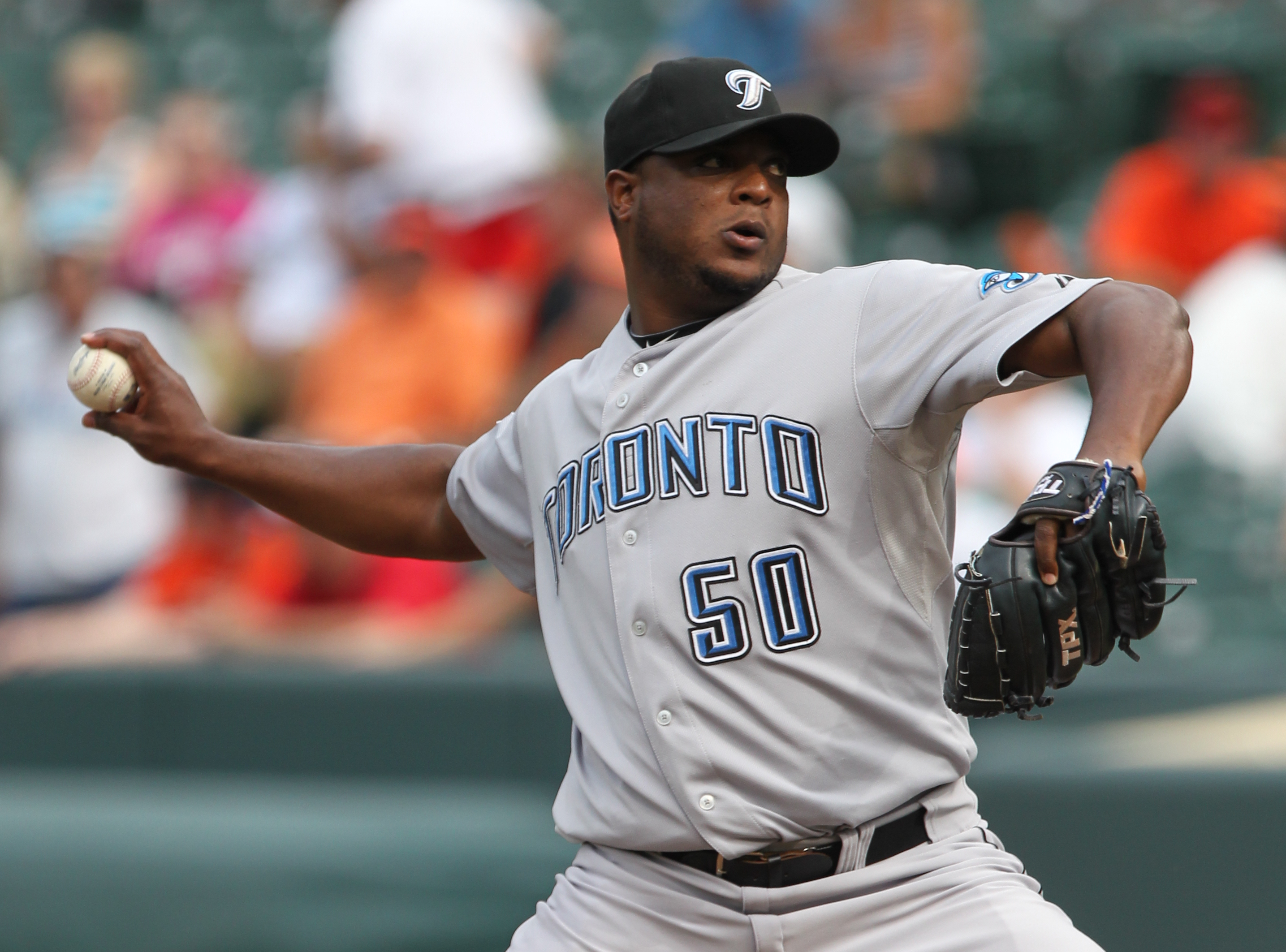 Blue Jays at Orioles September 1, 2011